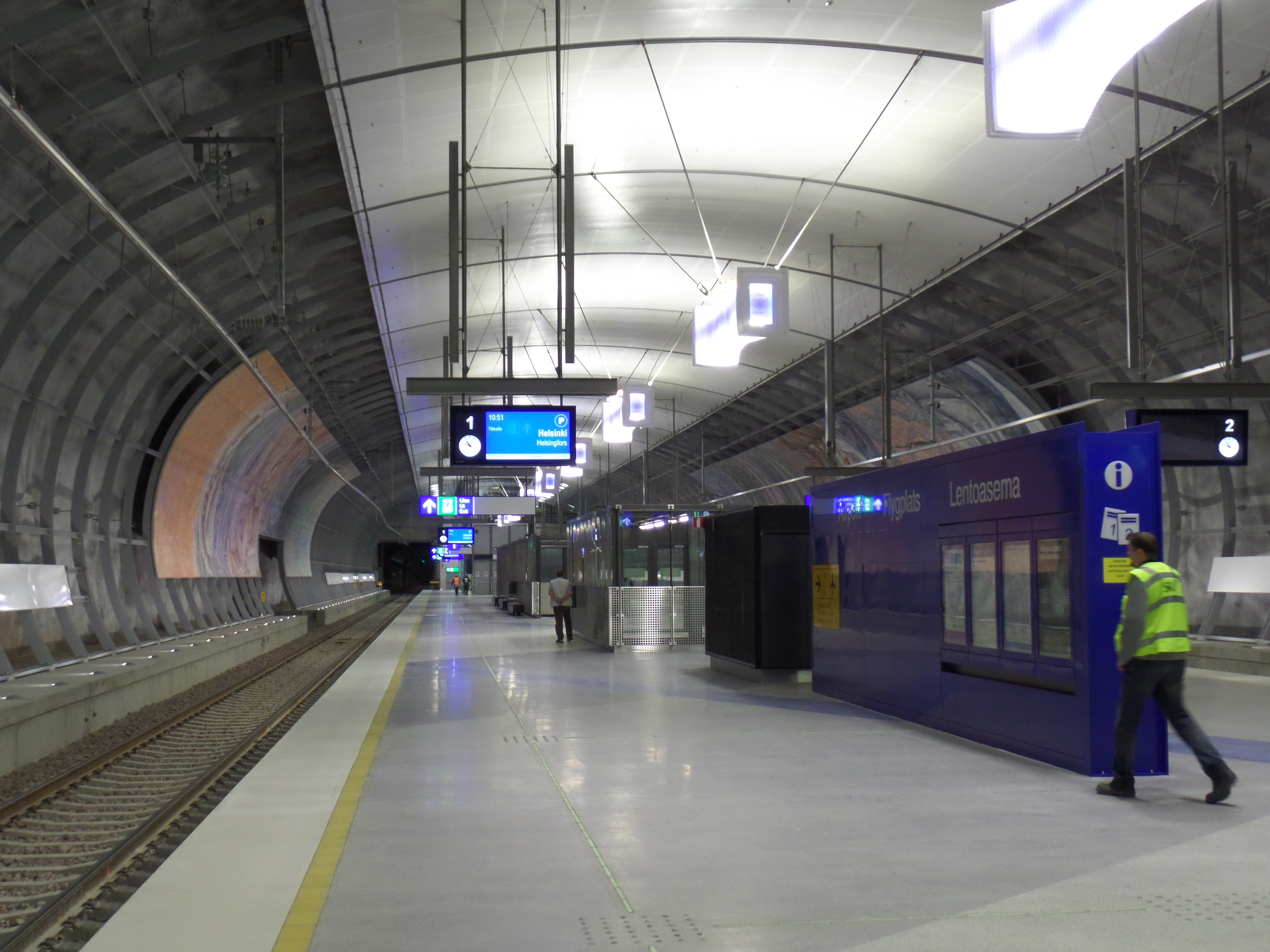 Lentoasema railway station platform 1 on July 10, 2015.